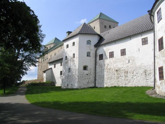 Exterior of Turku Castle bailey